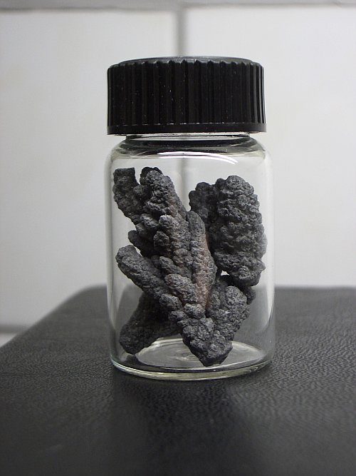 A piece of gray arsenic